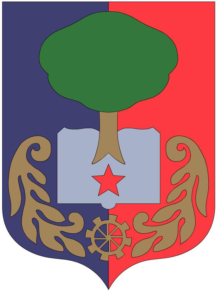 Coat of arms of Pápa, used in the communist era 1974-1989.